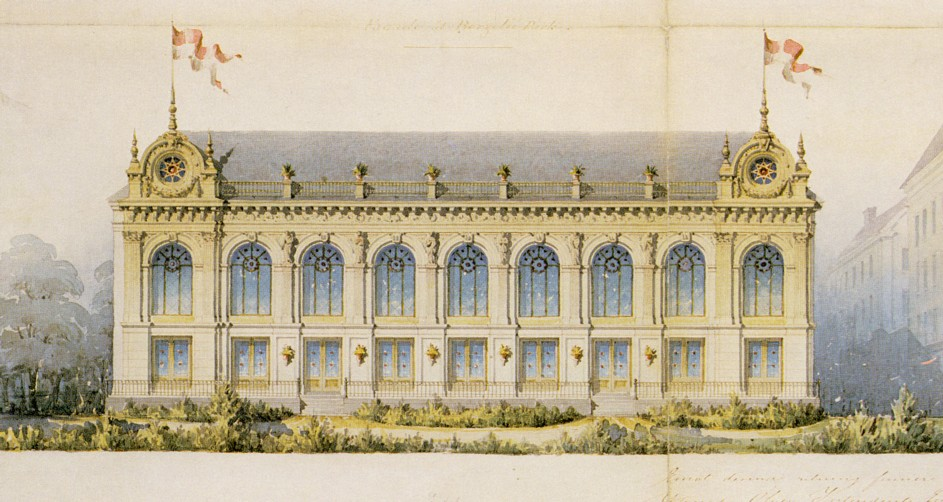 Berns salonger in Stockholm, elevation